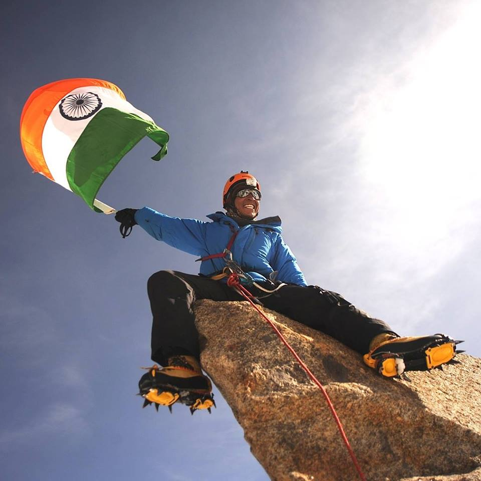 Picture taken on top of #MountKalam in Spiti, a Virgin mountain